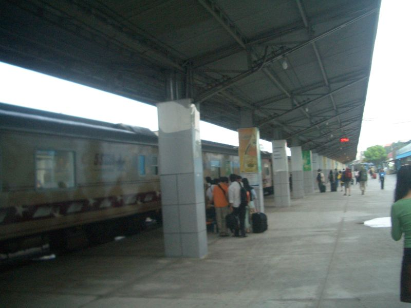 Railway station in Ho Chi Minh City